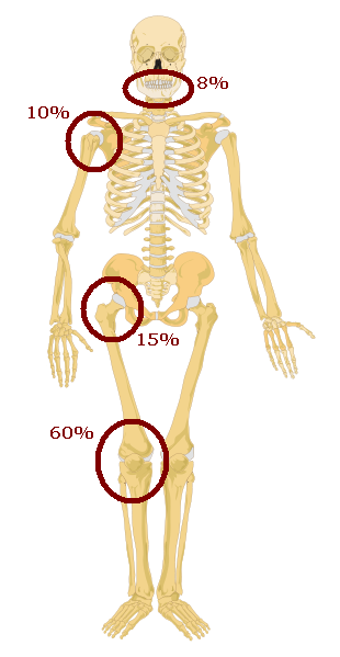 diagram of a human female skeleton with predilection sites of osteosarcoma